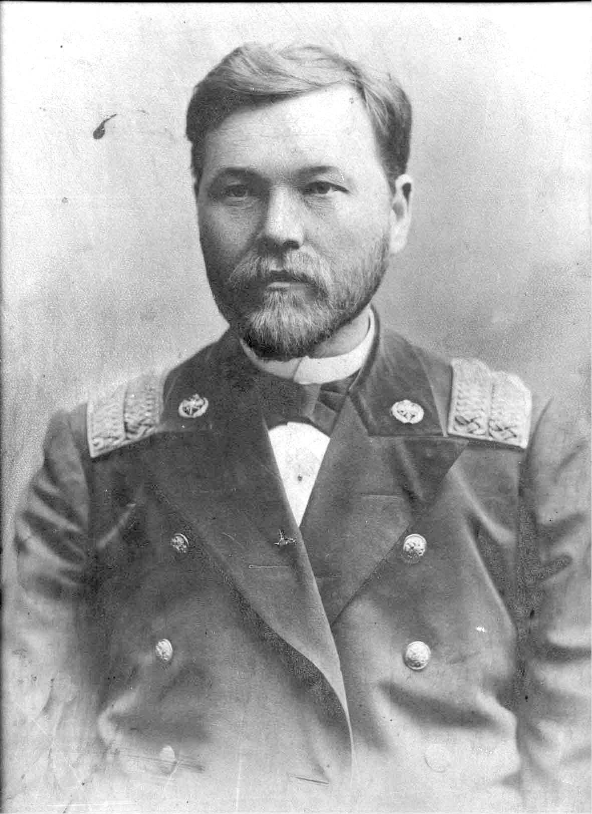 Makar Yevsevievich Yevseviev (a famous Erzya philologist and enlightener of Erzya and Moksha people, 1864-1931) in 1890, while being a member of teaching staff of the Kazan' Seminary, after he graduated from that seminary with excellent results in 1882.